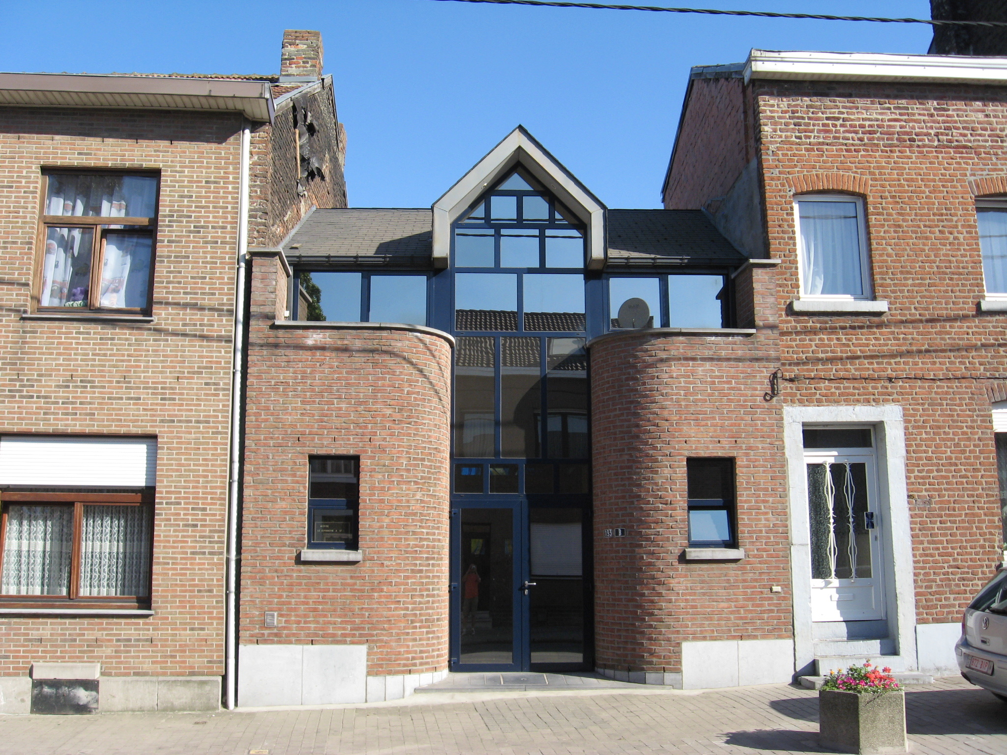 Church of Our Lady of Light in Glain, Liège, Liège, Belgium